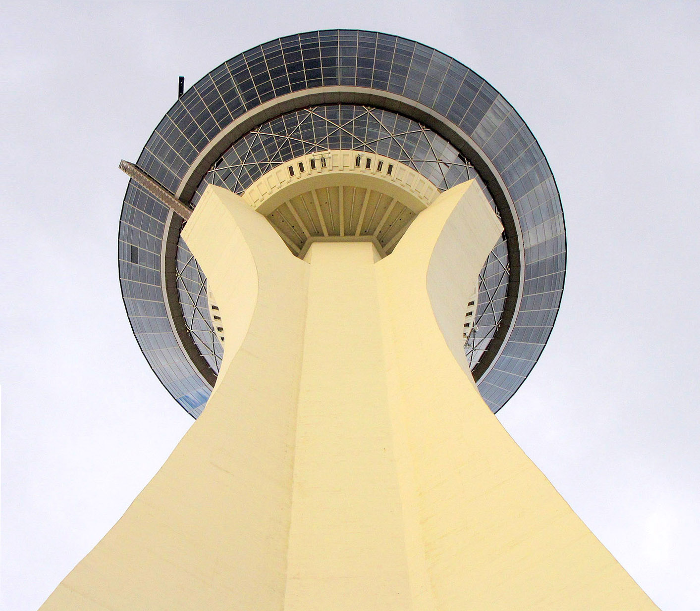 The landmark Stratosphere Tower in Las Vegas is the tallest free-standing observation tower in the U.S. at 1149 feet (350 meters) in height. Only the upper half is seen in this picture. In addition to observation decks that provide a great view of Las Vegas and vicinity in all directions, the top ot the tower is home to a restaurant and three open-air thrill-rides, two of which I have sampled and can personally testify that they really get the adrenaline flowing and make your hair rise.